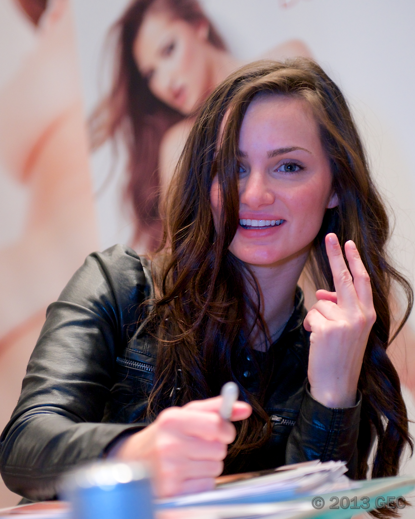 @LilyCarterXXX. 2013 AVN Adult Entertainment Expo AEE at Hard Rock Hotel - Las Vegas. 2013 © GEC.